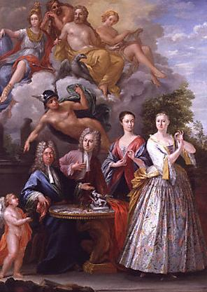 William Talman, left, with (left to right) his son John Talman, his daughter Frances Cokayne, and his wife, Hannah Talman